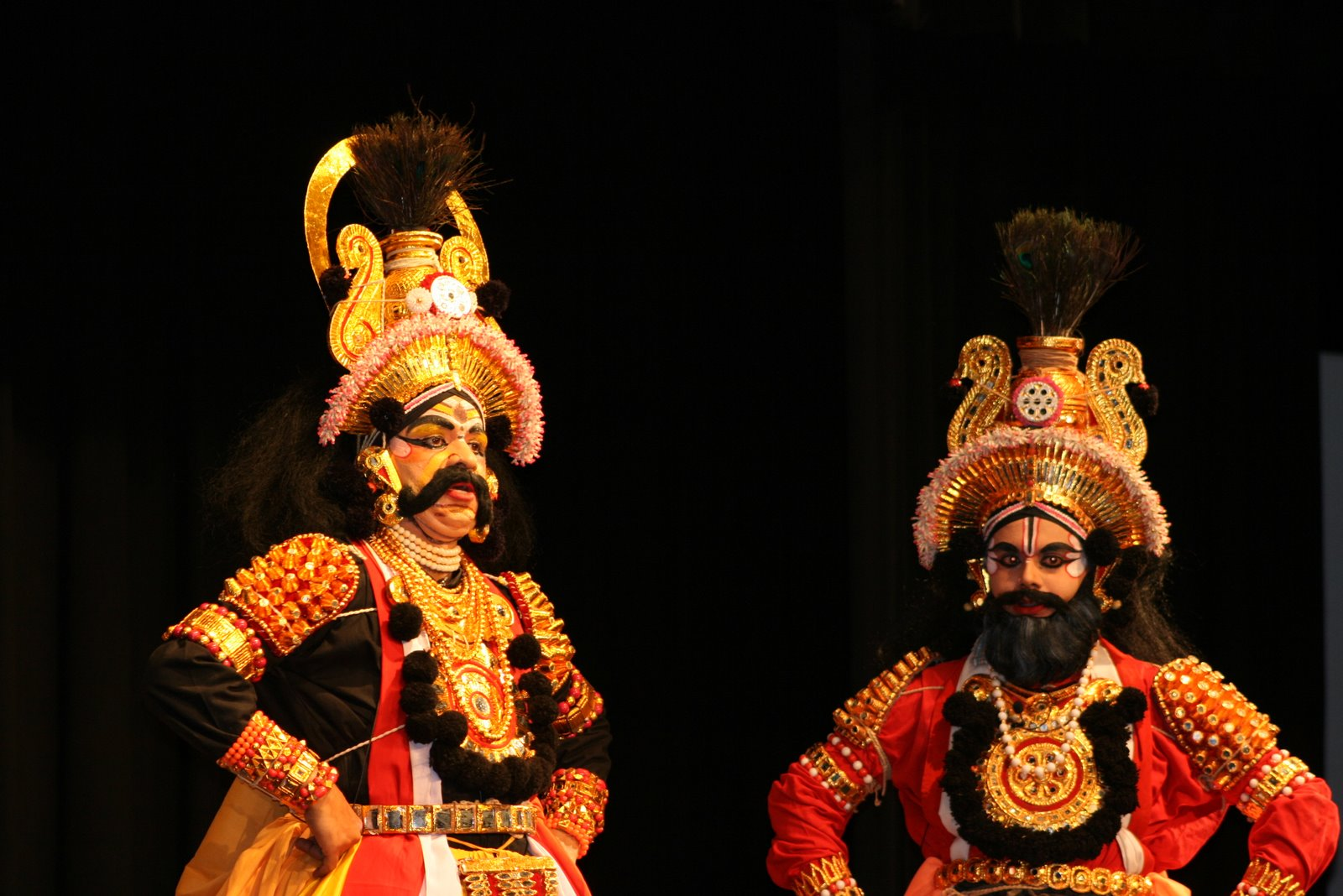 yakshagana "Kausa vade" played at Havyaka convention. Sreepada Hegade as Akrura